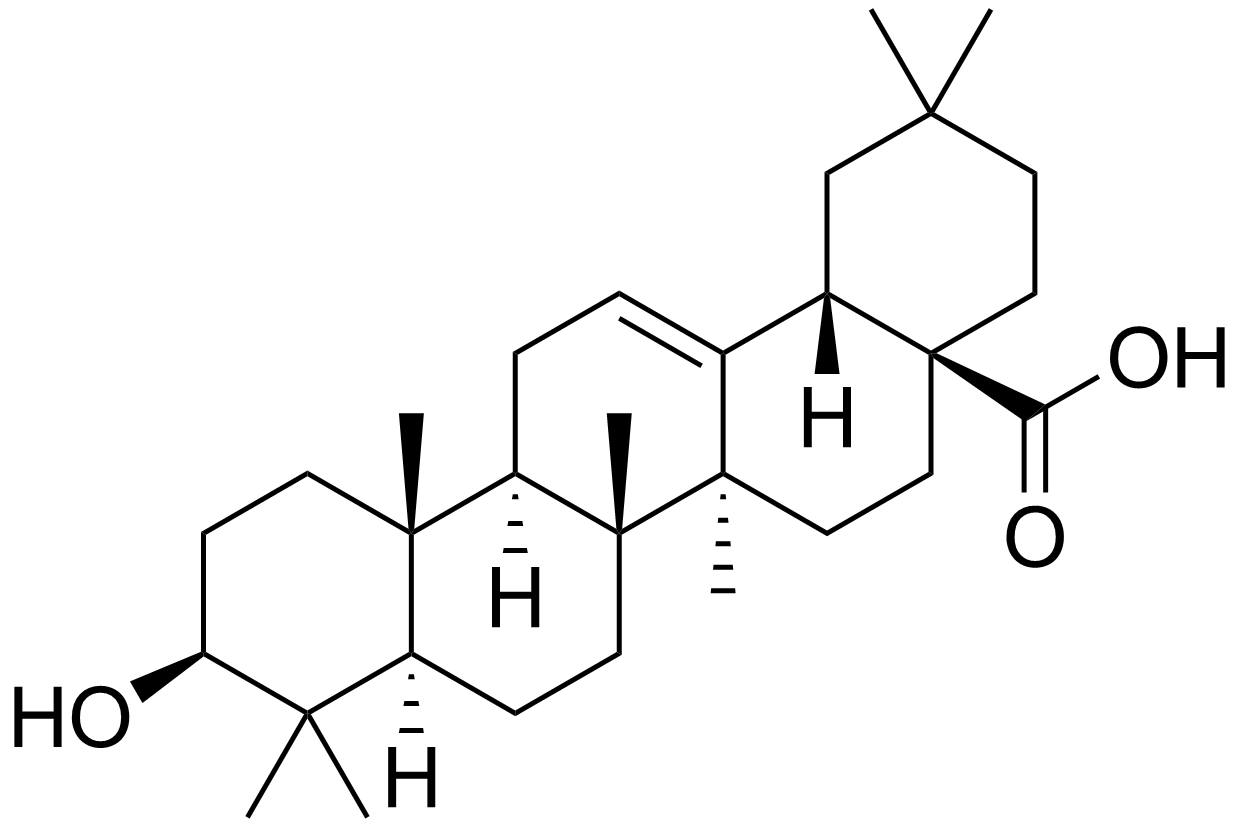 chemical structure of oleanolic acid